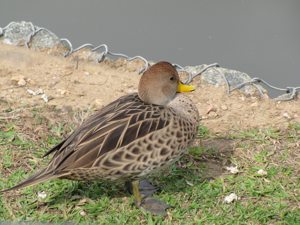 A Yellow-billed Pintail Anas georgica spinicauda at Curitiba Zoo, Parana, Brazil. This species is also called Chilean Pintail.